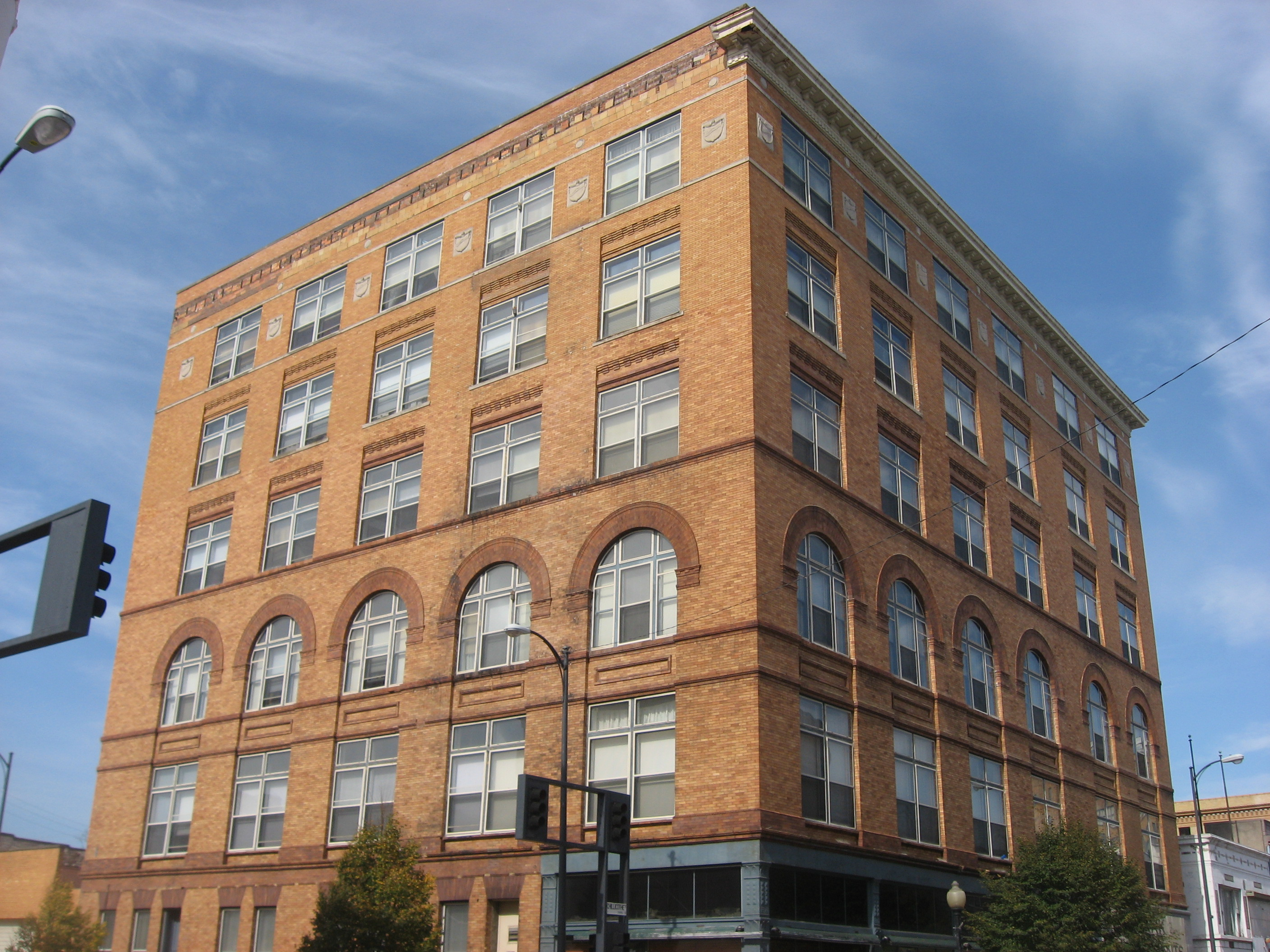 Front and southern side of the Anderson Brothers Department Store, located at 301-307 Chillicothe Street (U.S. Route 23) in Portsmouth, Ohio, United States. Built in 1899, it is listed on the National Register of Historic Places.